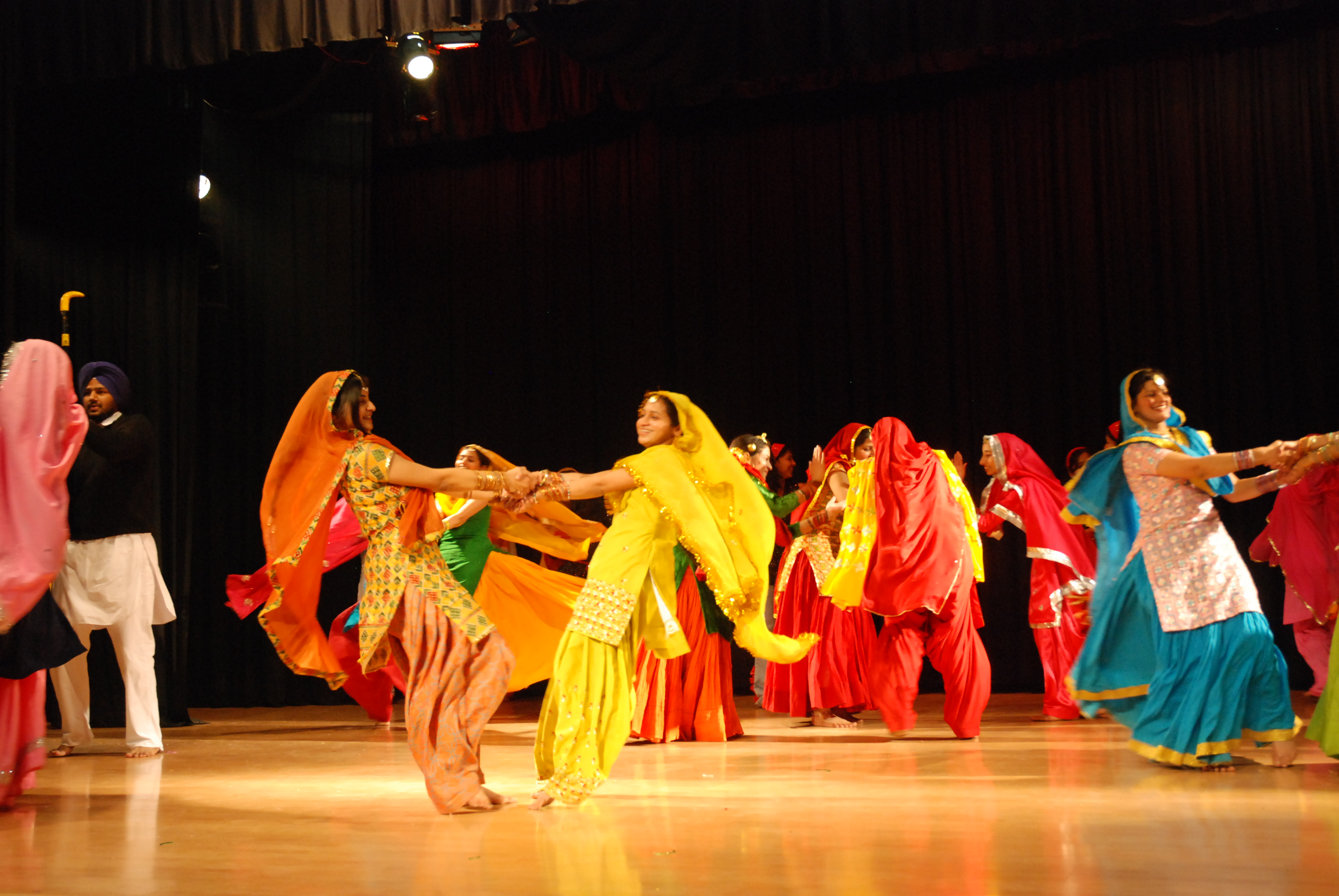 Punjabi Celebration